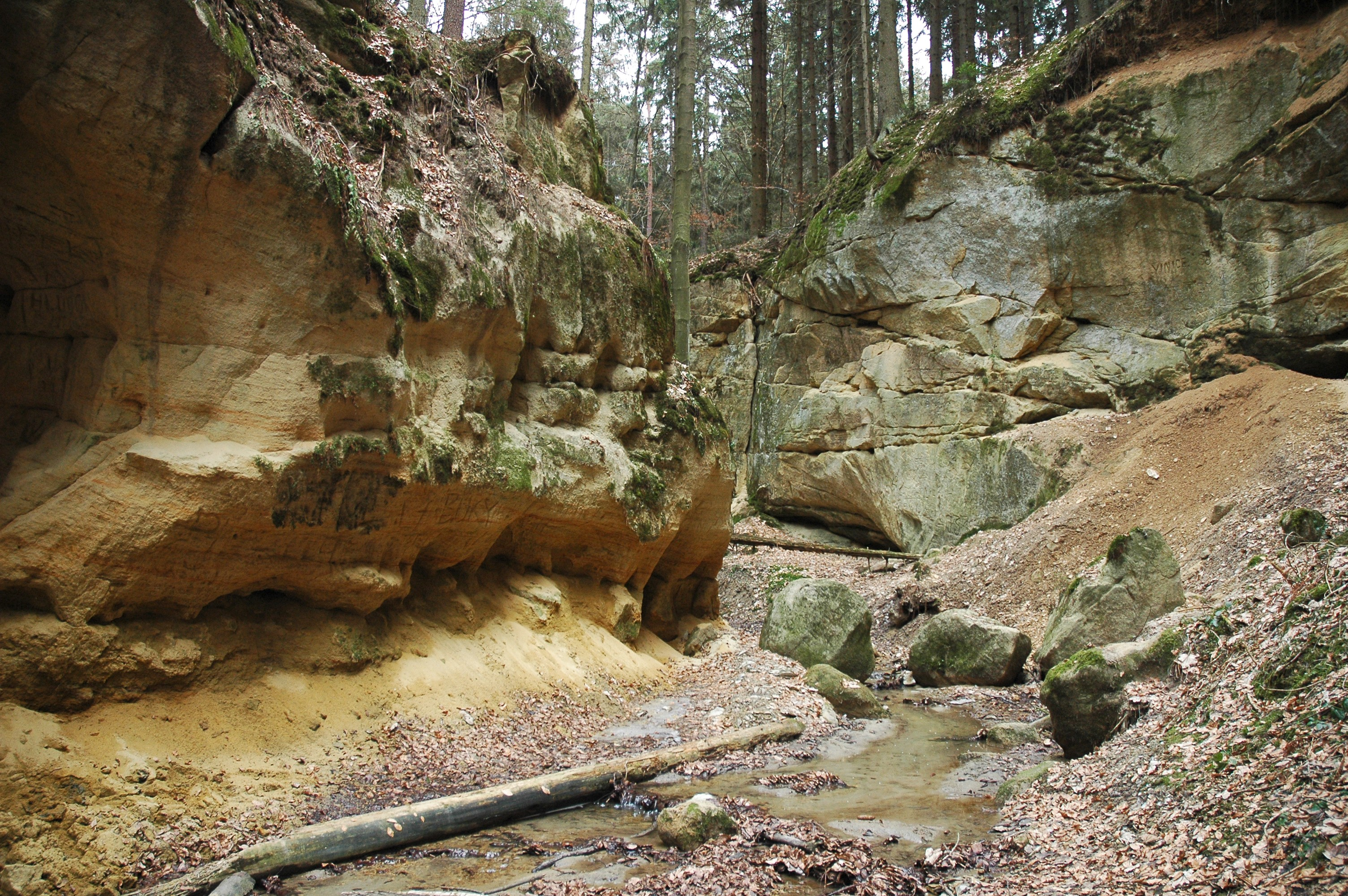 Natural monument Pivnice in Chrudim District, Czech Republic